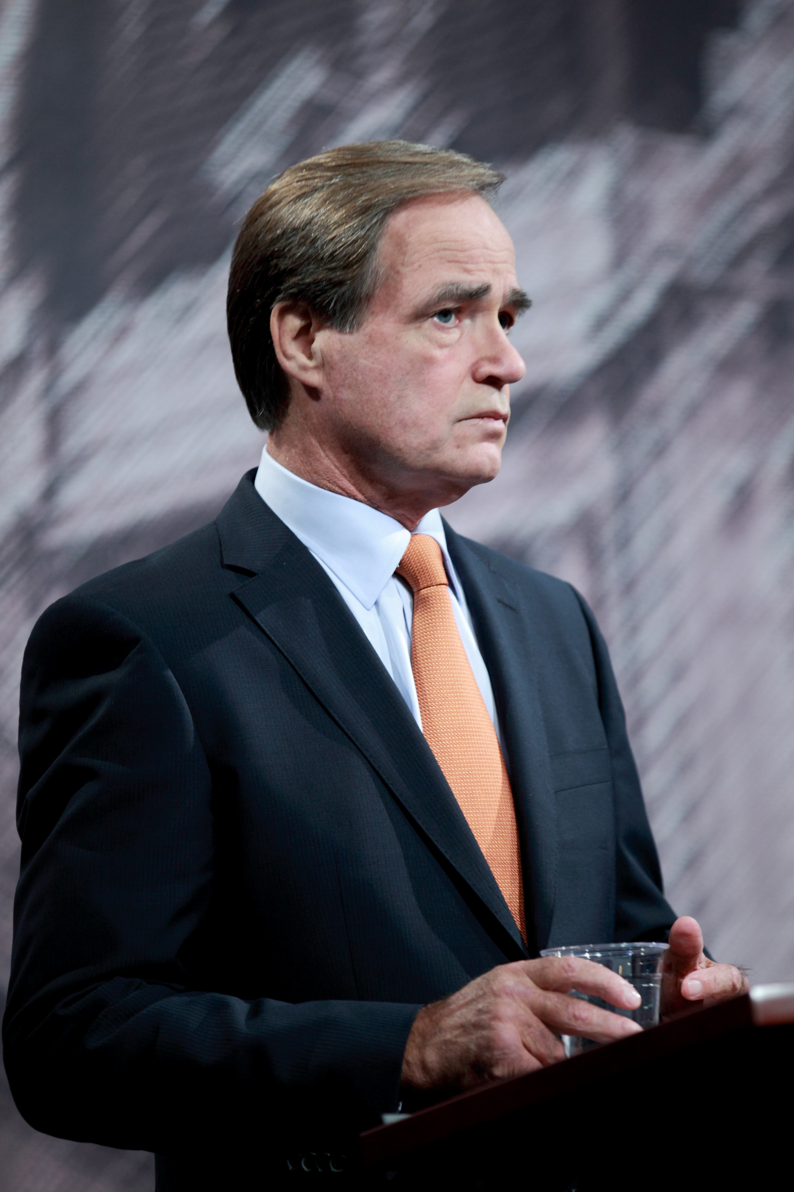 Dwain Lingenfelter at the 2011 Leader's Debate